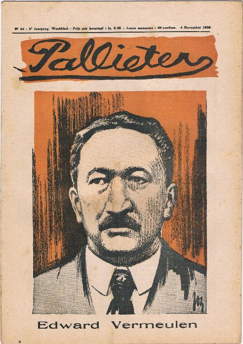 Front page of the Flemish magazine Pallieter (1922-1928). All front pages were designed and illustrated by Jos De Swerts (1890-1939).